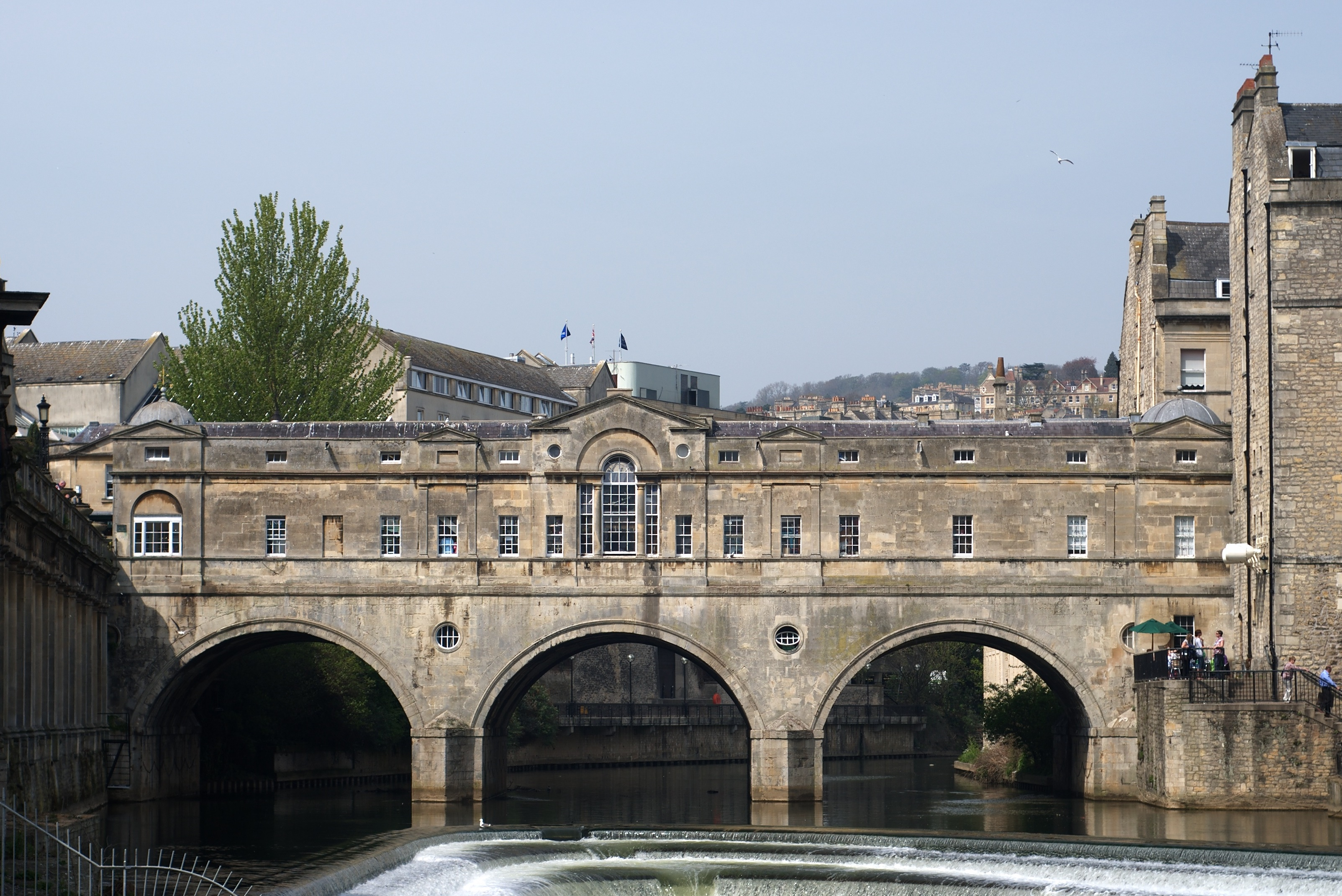 Pulteney Bridge in Bath, England.